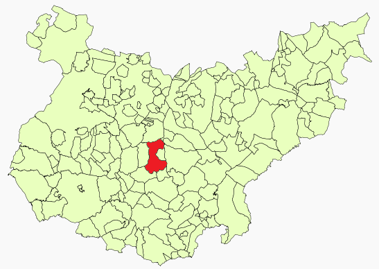 Ribera del Fresno